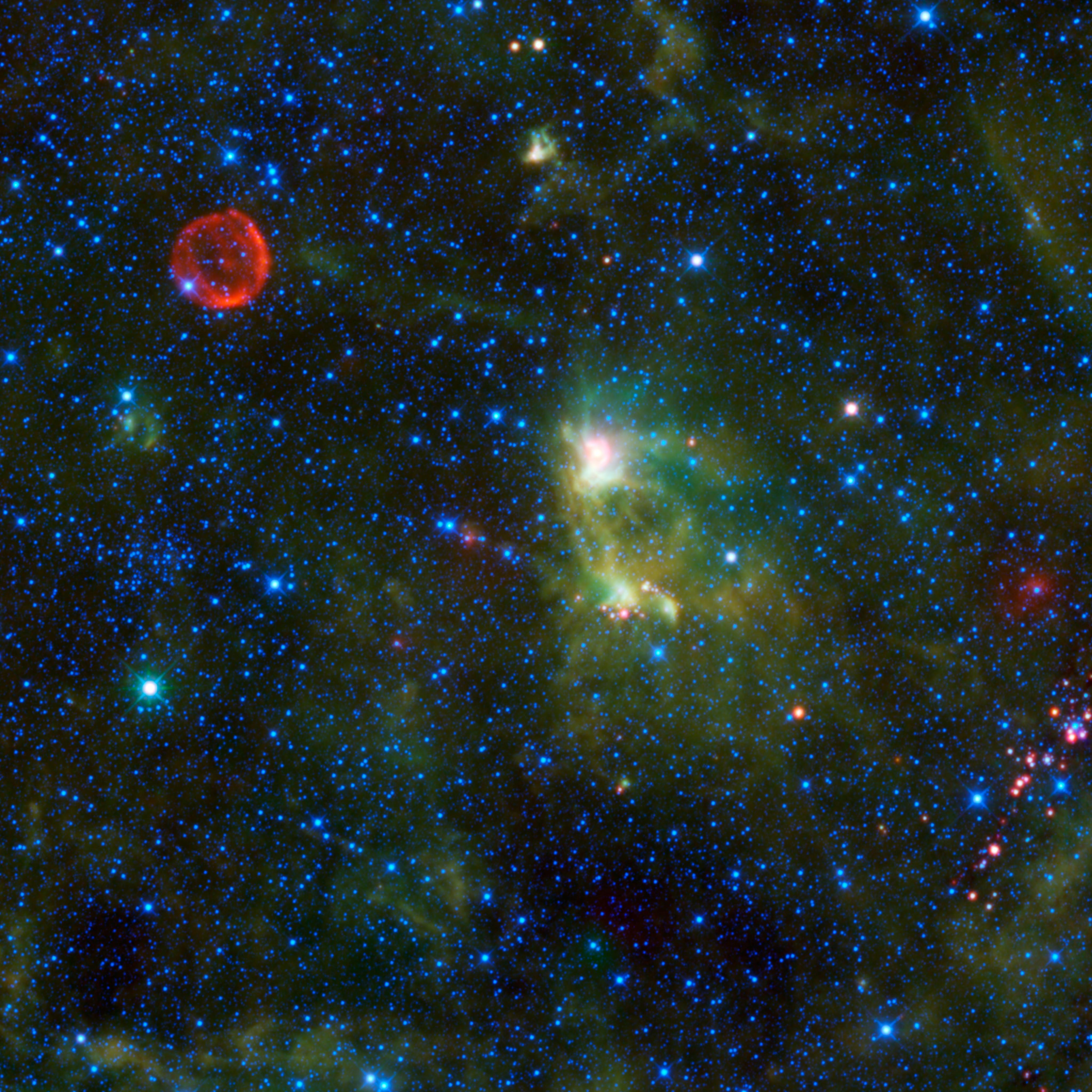 This image from NASA's Wide-field Infrared Survey Explorer (WISE) takes in several interesting objects in the constellation Cassiopeia, none of which are easily seen in visible light. The red circle visible in the upper left part of the image is SN 1572, often called “Tycho’s Supernova”. In the centre of the image is a star forming nebula of dust and gas, called S175 (in the Sharpless catalog of ionized nebula). This cloud of material is about 3,500 light years away and 35 light-years across. It is being heated by radiation from young hot stars within it, and the dust within the cloud radiates infrared light. On the left edge of the image, between the Tycho supernova remnant and the very bright star, is an open cluster of stars, King 1, first catalogued by Ivan King, an astronomer at UC Berkeley. This cluster is about 6,000 light-years away, 4 light-years across and is about 2 billion years old. Also of interest in the lower right of the image is a cluster of very red sources. Almost all of these sources have no counterparts in visible light images, and only some have been catalogued by previous infrared surveys.